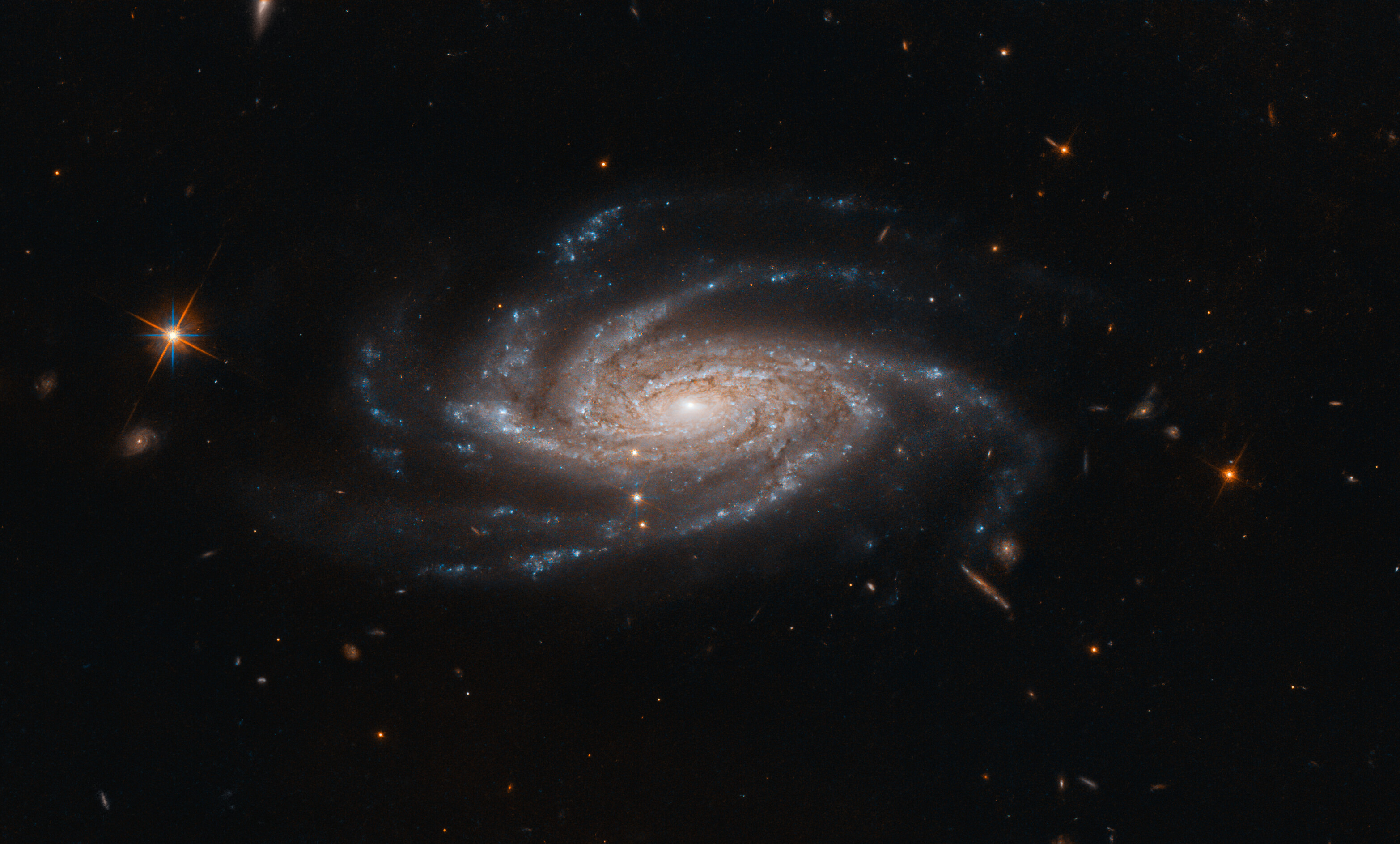 The spiral galaxy NGC 2008 sits centre stage, its ghostly spiral arms spreading out towards us, in this image captured by the NASA/ESA Hubble Space Telescope. This galaxy is located about 425 million light-years from Earth in the constellation of Pictor (The Painter’s Easel). Discovered in 1834 by astronomer John Herschel, NGC 2008 is categorised as a type Sc galaxy in the Hubble sequence, a system used to describe and classify the various morphologies of galaxies. The “S” indicates that NGC 2008 is a spiral, while the “c” means it has a relatively small central bulge and more open spiral arms. Spiral galaxies with larger central bulges tend to have more tightly wrapped arms, and are classified as Sa galaxies, while those in between areclassified as type Sb. Spiral galaxies are ubiquitous across the cosmos, comprising over 70% of all observed galaxies — including our own, the Milky Way. However, their ubiquity does not detract from their beauty. These grand, spiralling collections of billions of stars are among the most wondrous sights that have been captured by telescopes such as Hubble, and are firmly embedded in astronomical iconography.